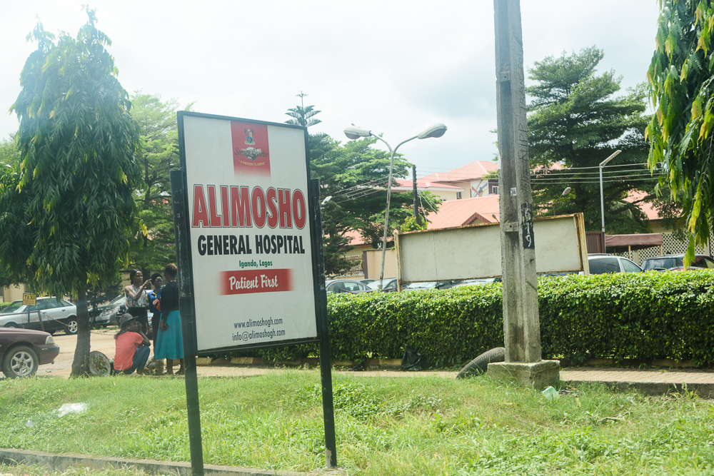 igando road